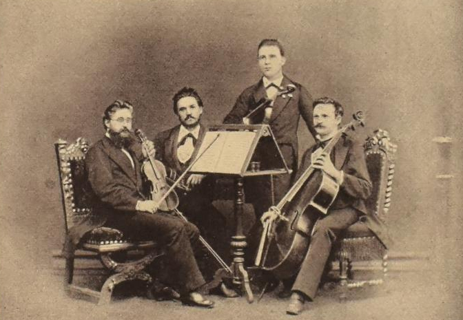 Robert Heckmann's quartet: Robert Heckmann (1st violin), Otto Forberg (viola), Theodore Allekotte (2nd violin), Richard Bellman (cello)